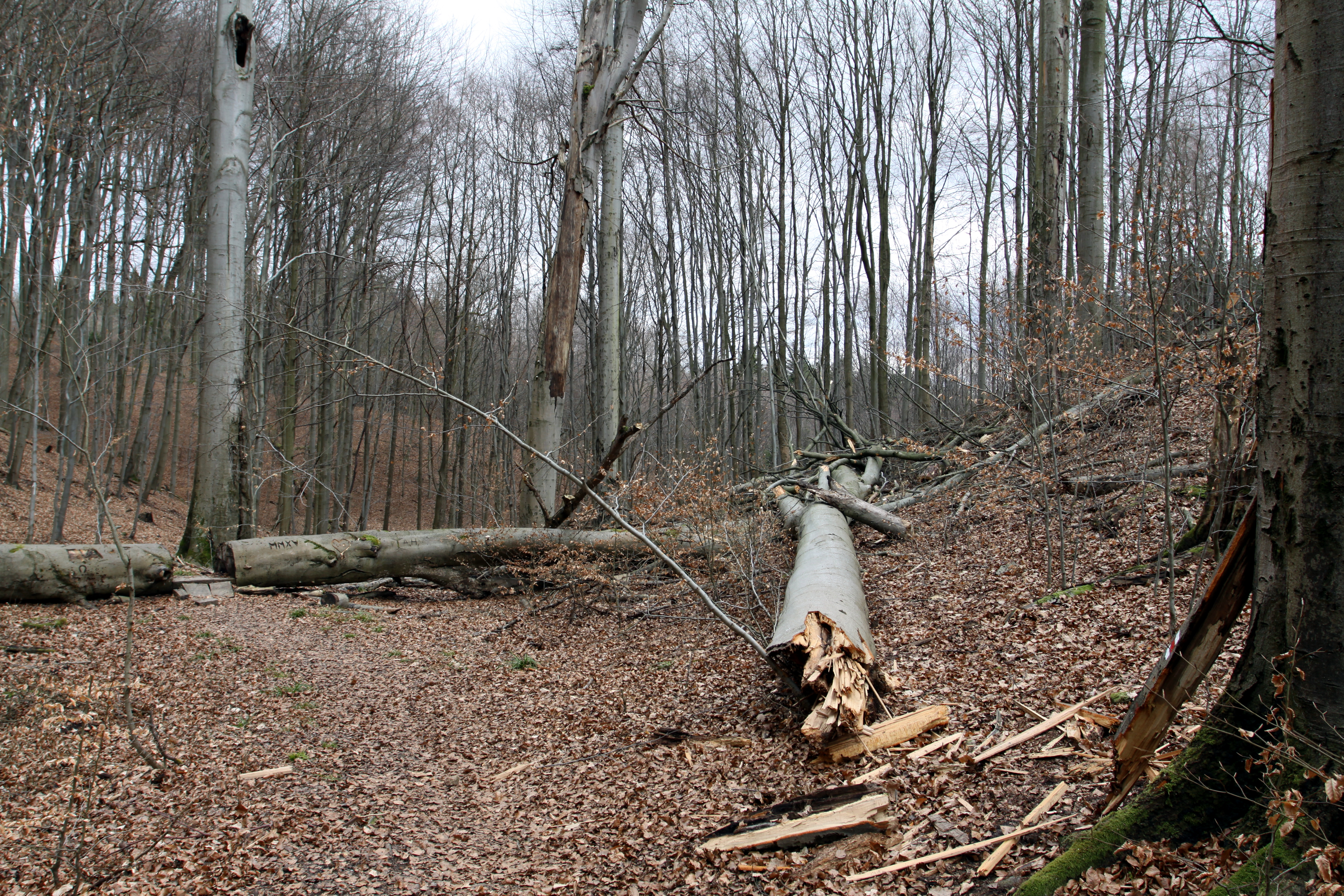 Nature reserve Grabla near Krhanice village in Benešov District, Czech republic